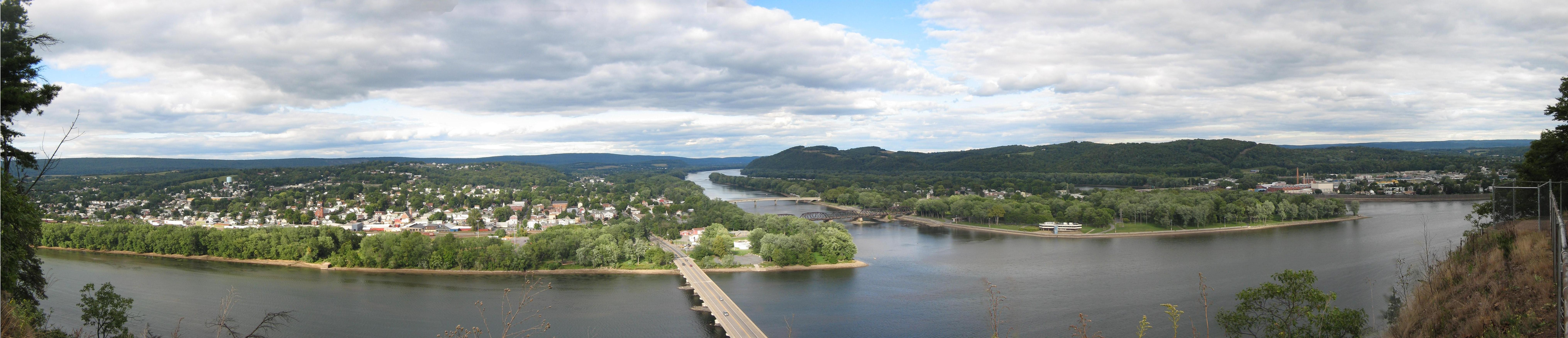 Shikellamy State Park Overlook Panorama with the confluence on the West Branch (left) and North Branch (center) of the Susquehanna River, along with the boroughs of Northumberland and Sunbury, Northumberland County, Pennsylvania, USA. Shikellamy State Park Marina unit on Packer Island also visible.